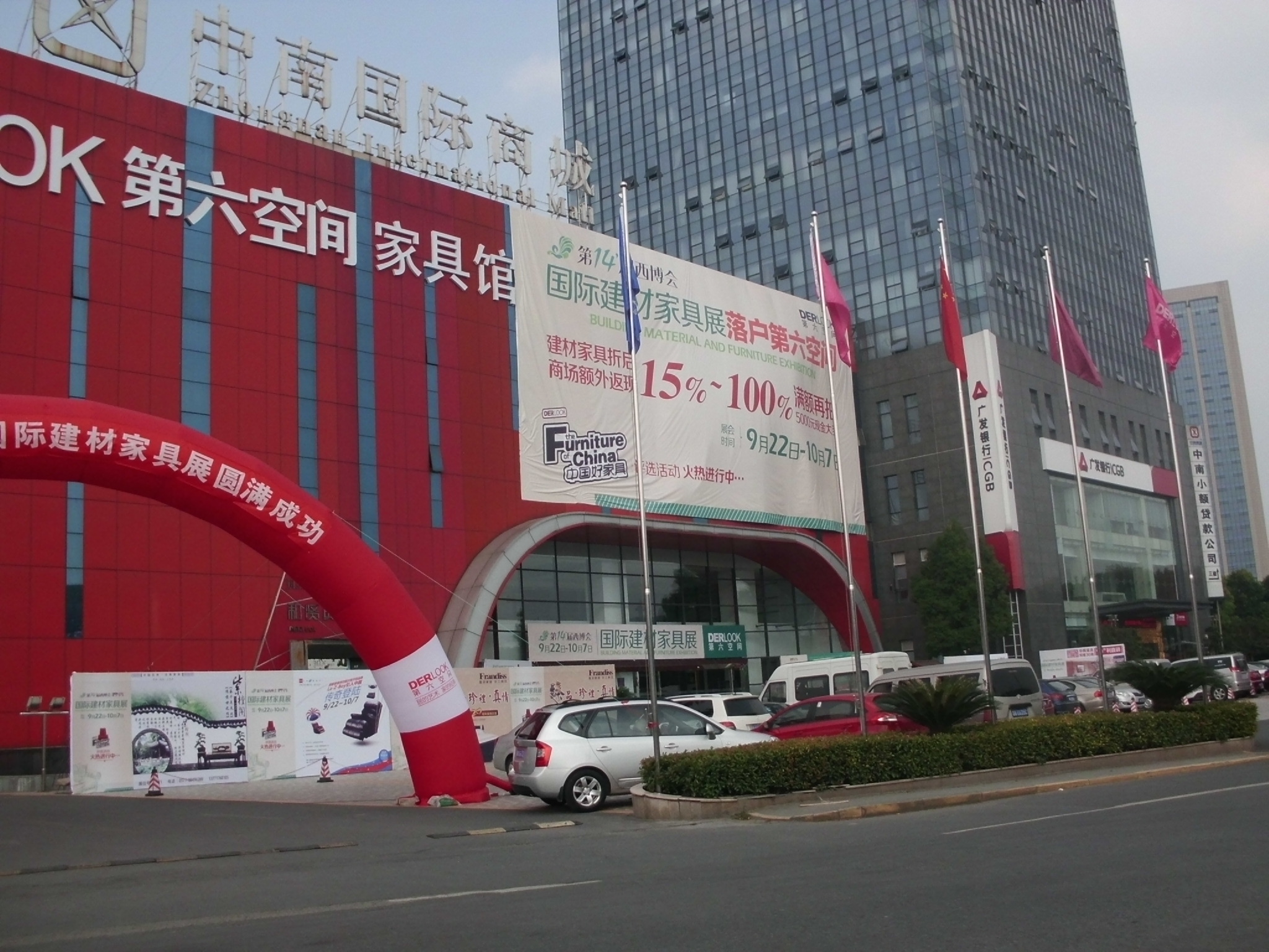 Binjiang District